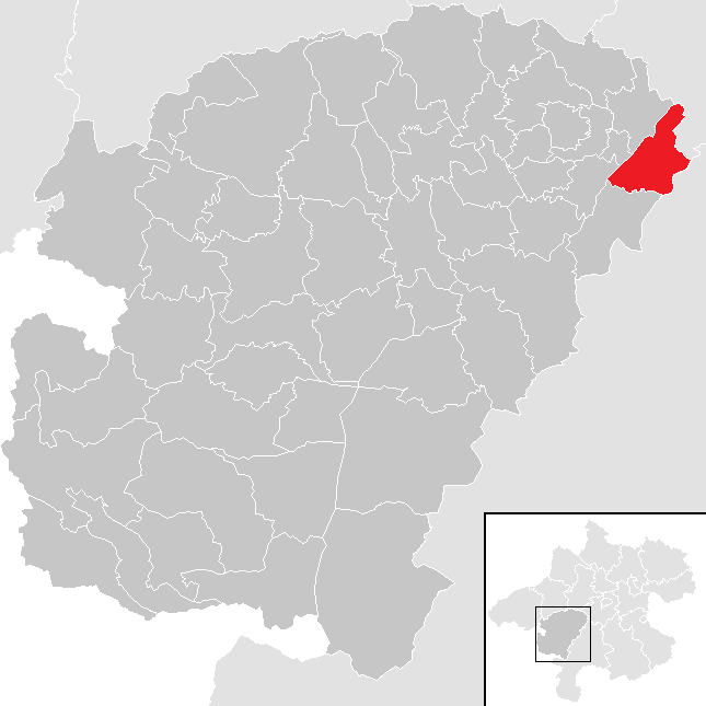 District Vöcklabruck